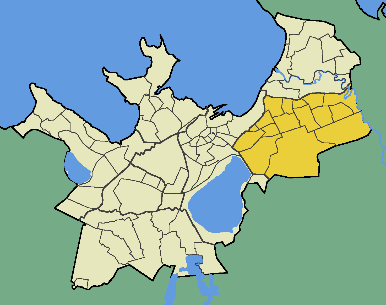 Map of Tallinn (Estonia) with borders of the quarters, Lasnamäe district emphasised